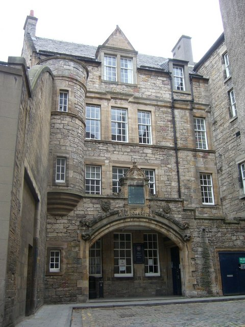 Lodge, Queen's Edinburgh Rifles, Forrest Road Masonic lodge, built for the Queen's Rifle Volunteer Brigade, The Royal Scots, in 1925; also a Territorial Army Headquarters and building for the University Officer Training Corps. It now houses part of the University's Department of Artificial Intelligence.